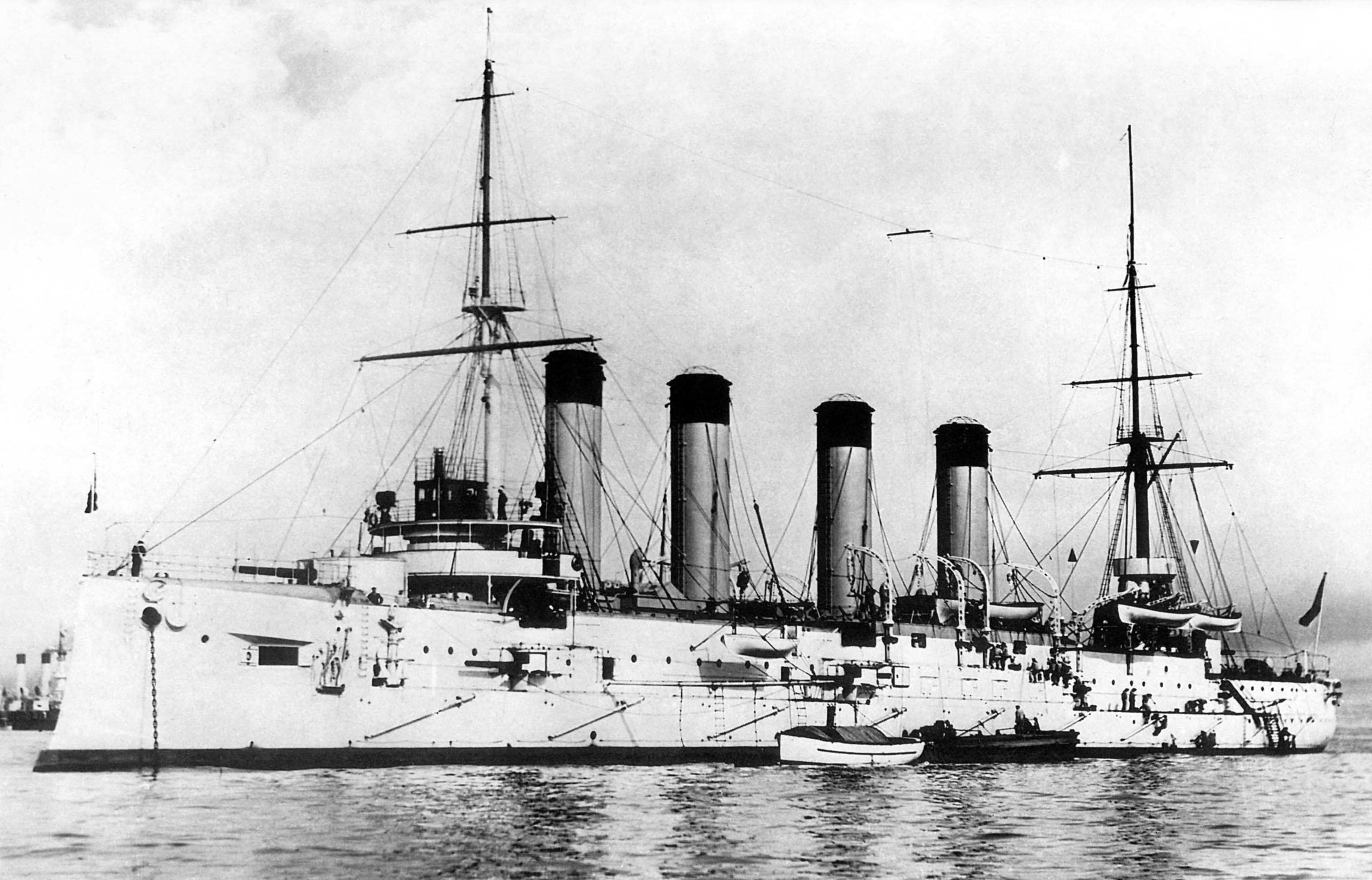 Imperial Russian Armoured cruiser Bayan (I) in Kronstadt, summer 1903.